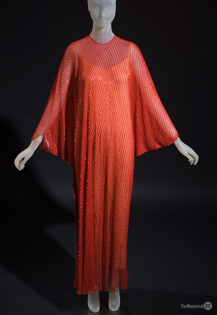 Red beaded nylon c. 1977, USA Gift of Frederick Supper, 82.3.1 YSL + Halston: Fashioning the 70s Photograph by Eileen Costa © The Museum at FIT.